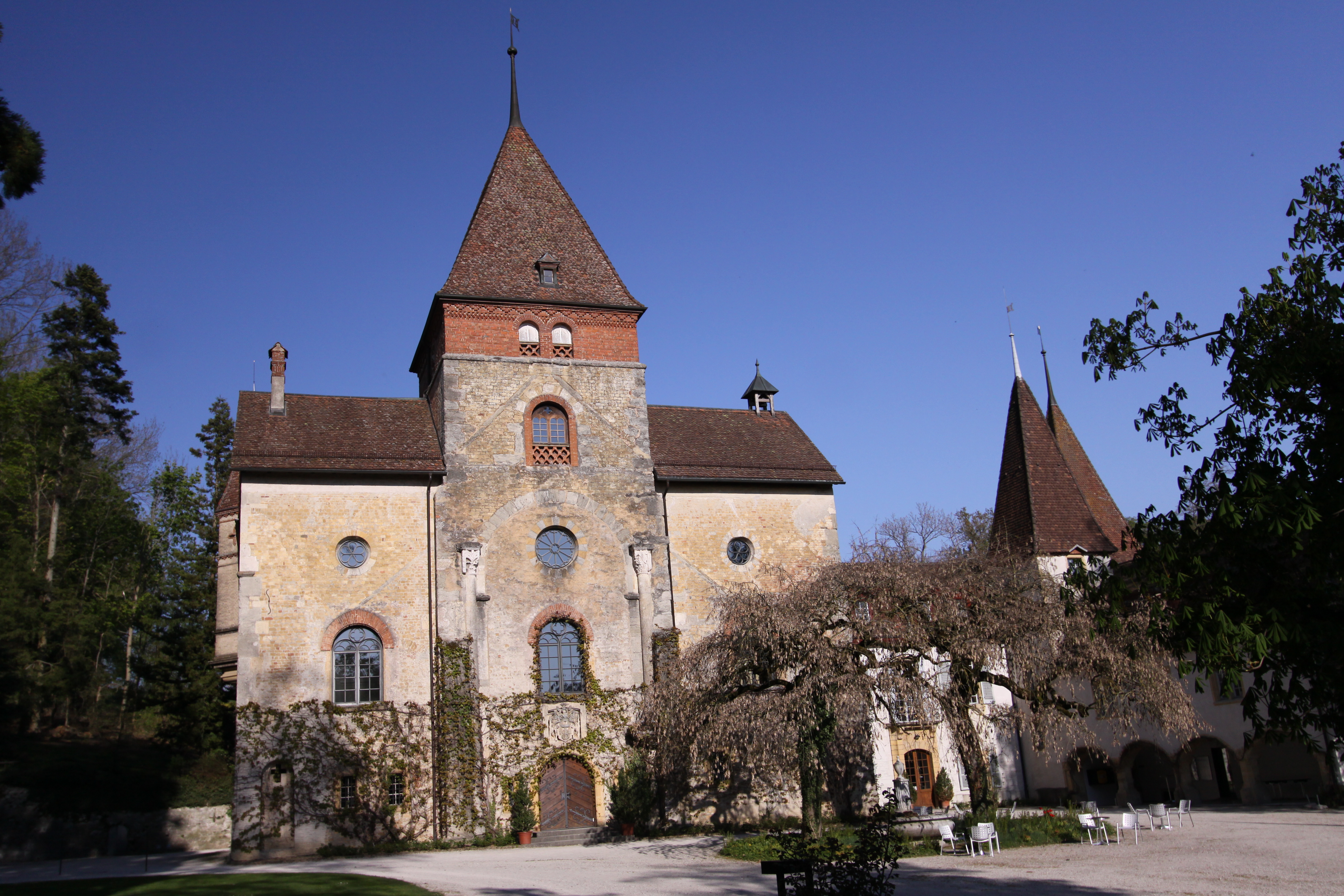 Münchenwiler Castle, Kühergasse 7, Münchenwiler